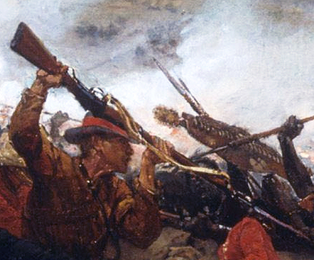 Detail of a painting - detail supposedly depicts Ferdinand Schiess VC